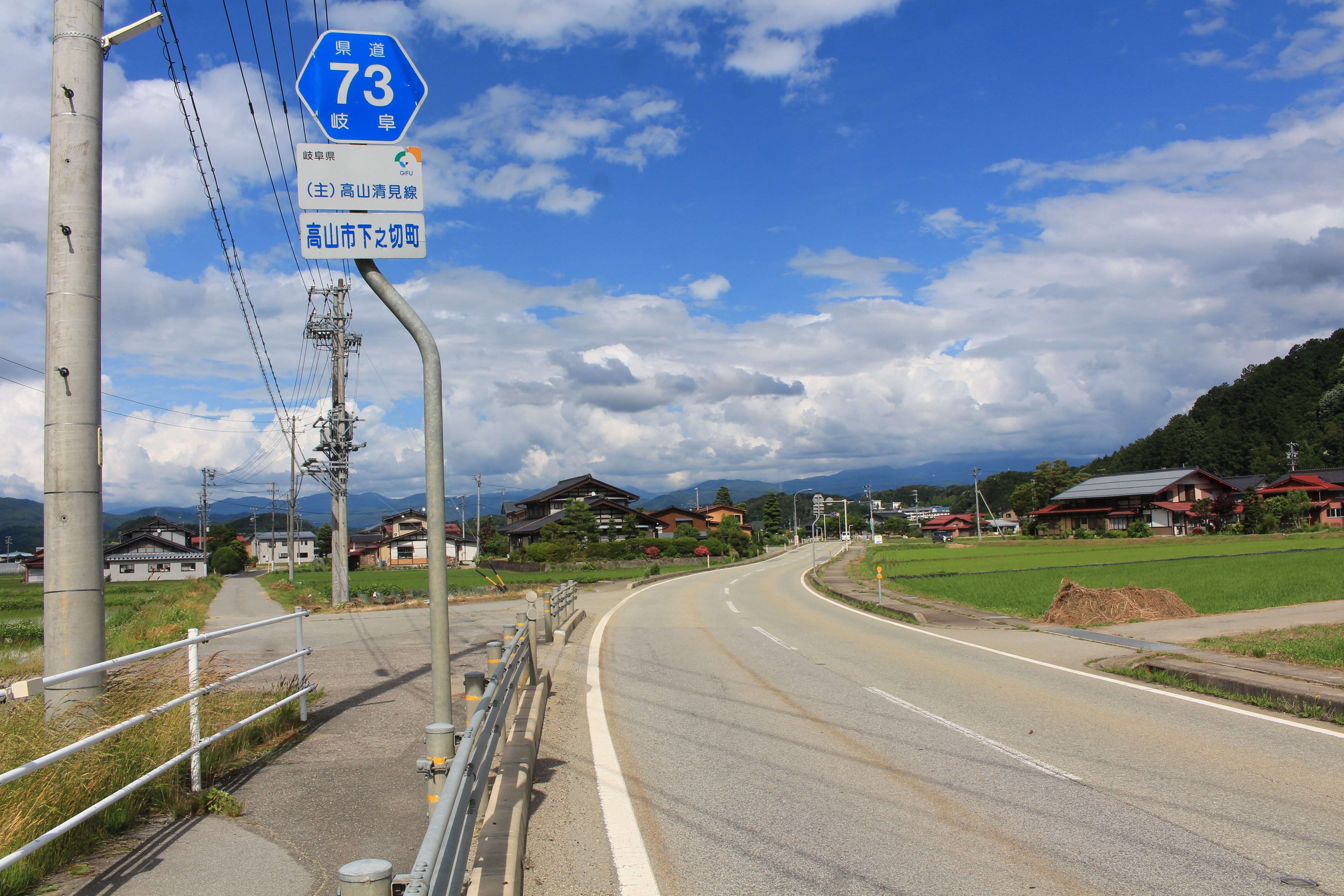 Gifu Prefectural Road Route 73 in Shimonokirimachi, Takayama, Gifu Prefecture, Japan.